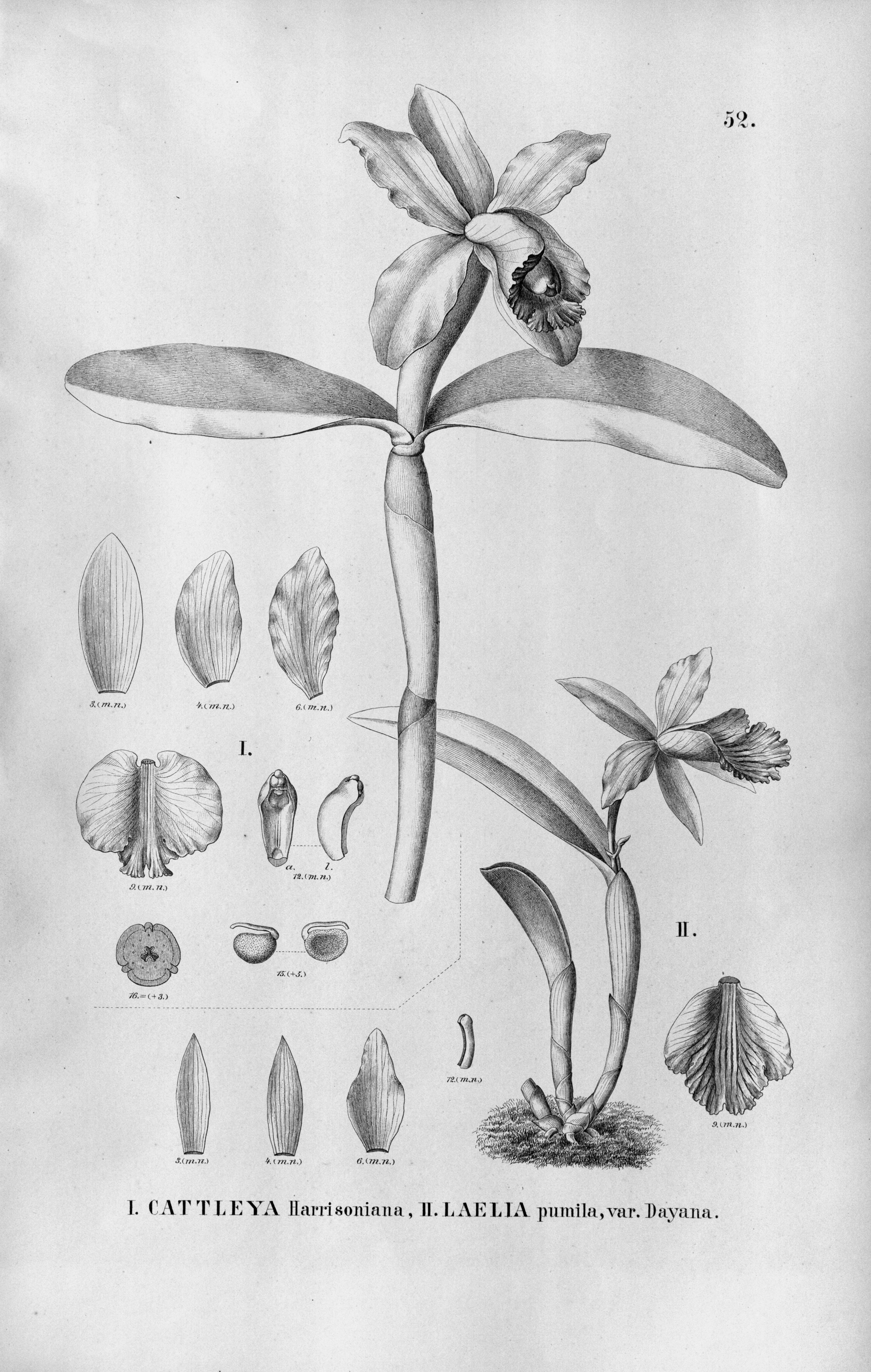 Illustration of I. Cattleya harrisoniana II. Cattleya bicalhoi (as syn. Laelia pumila var. dayana)